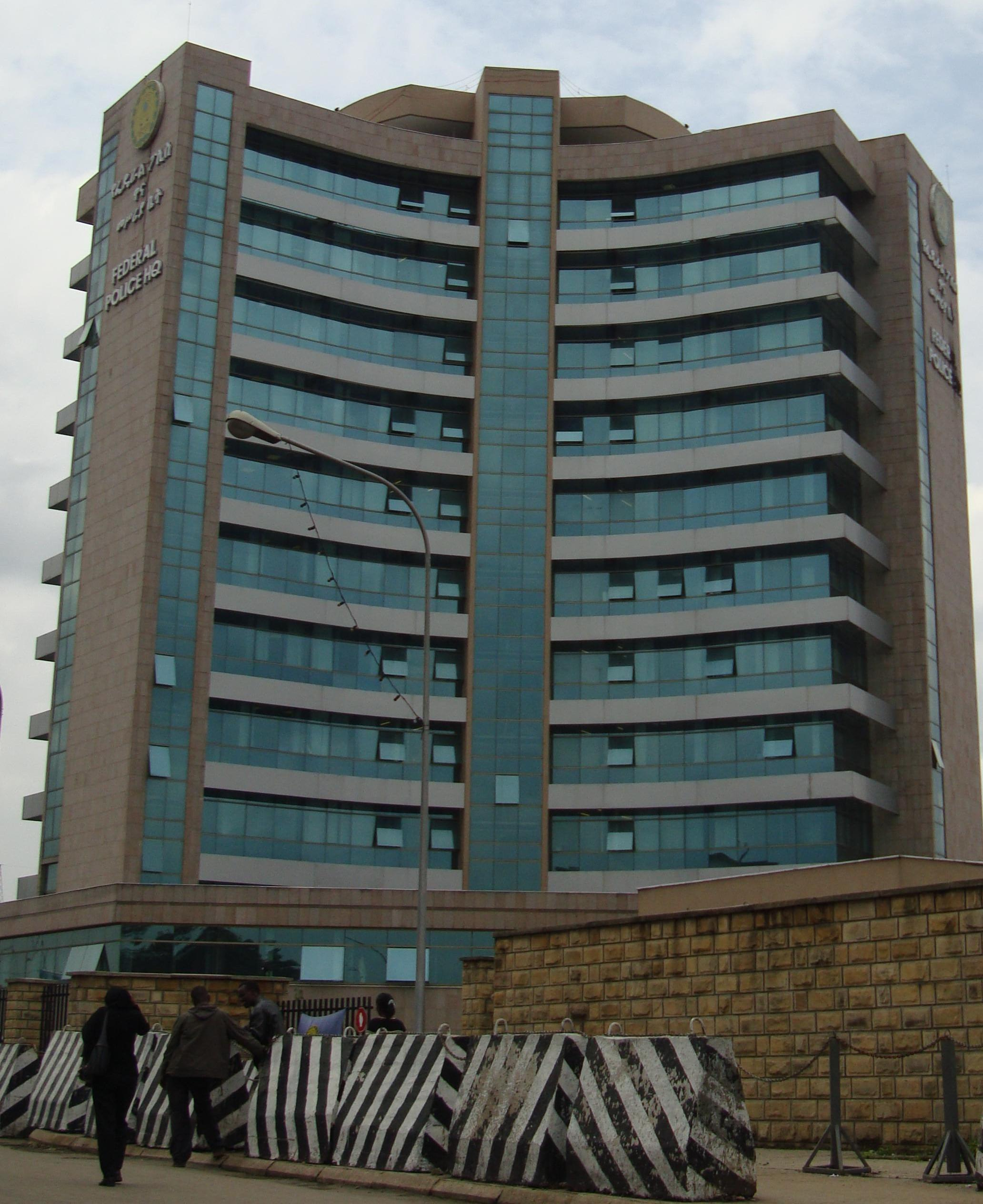 Ethiopian Federal police HQ, Addis Abeba